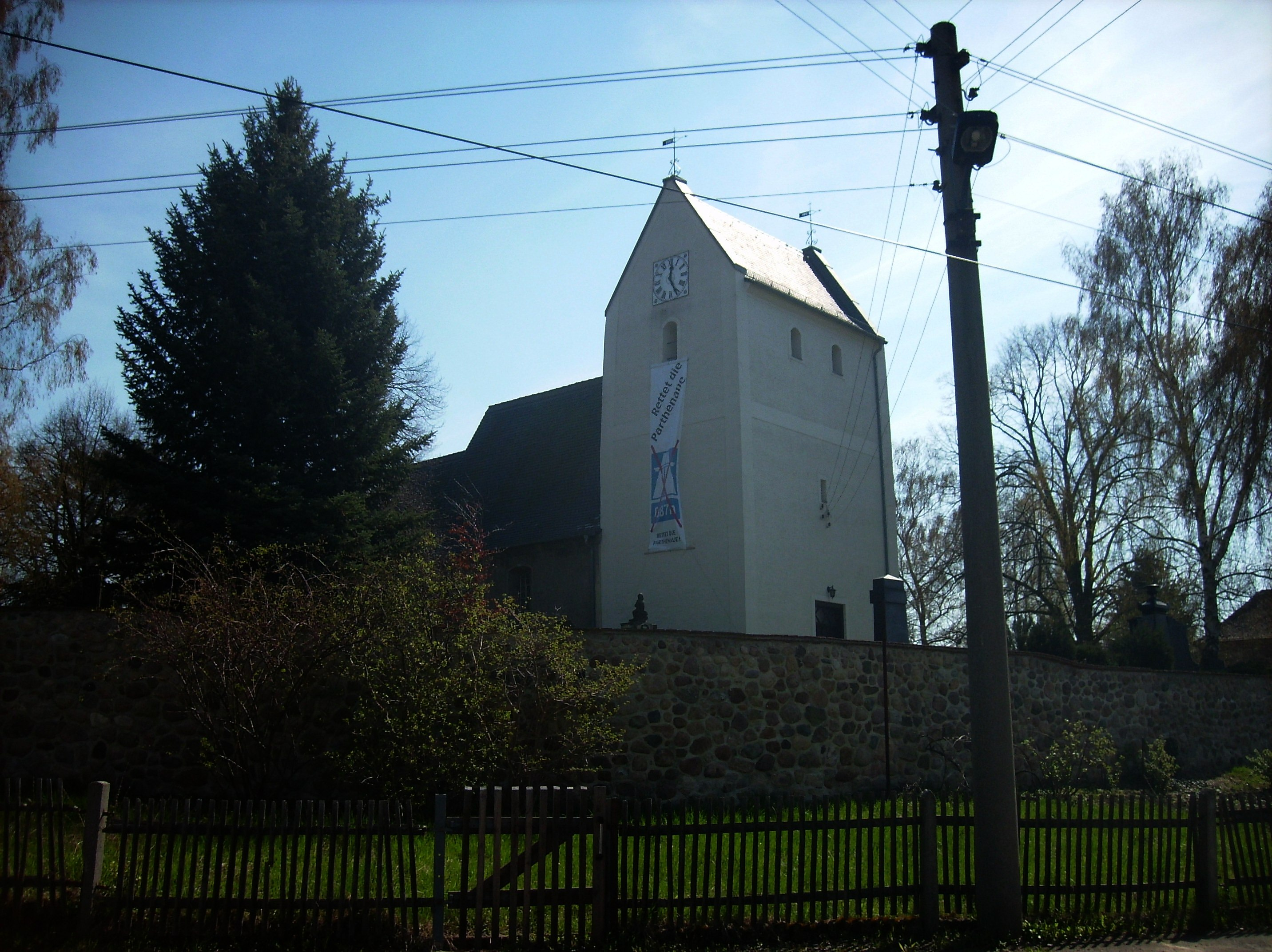 Saint Catherine Church in Sehlis (Taucha, Nordsachsen district, Saxony) with protest banner against a road consruction project threatening the landscape